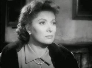 Cropped screenshot of Greer Garson from the trailer for the film The Miniver Story